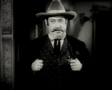 Stanley Fields in Way Out West (1937) - trailer (cropped screenshot)